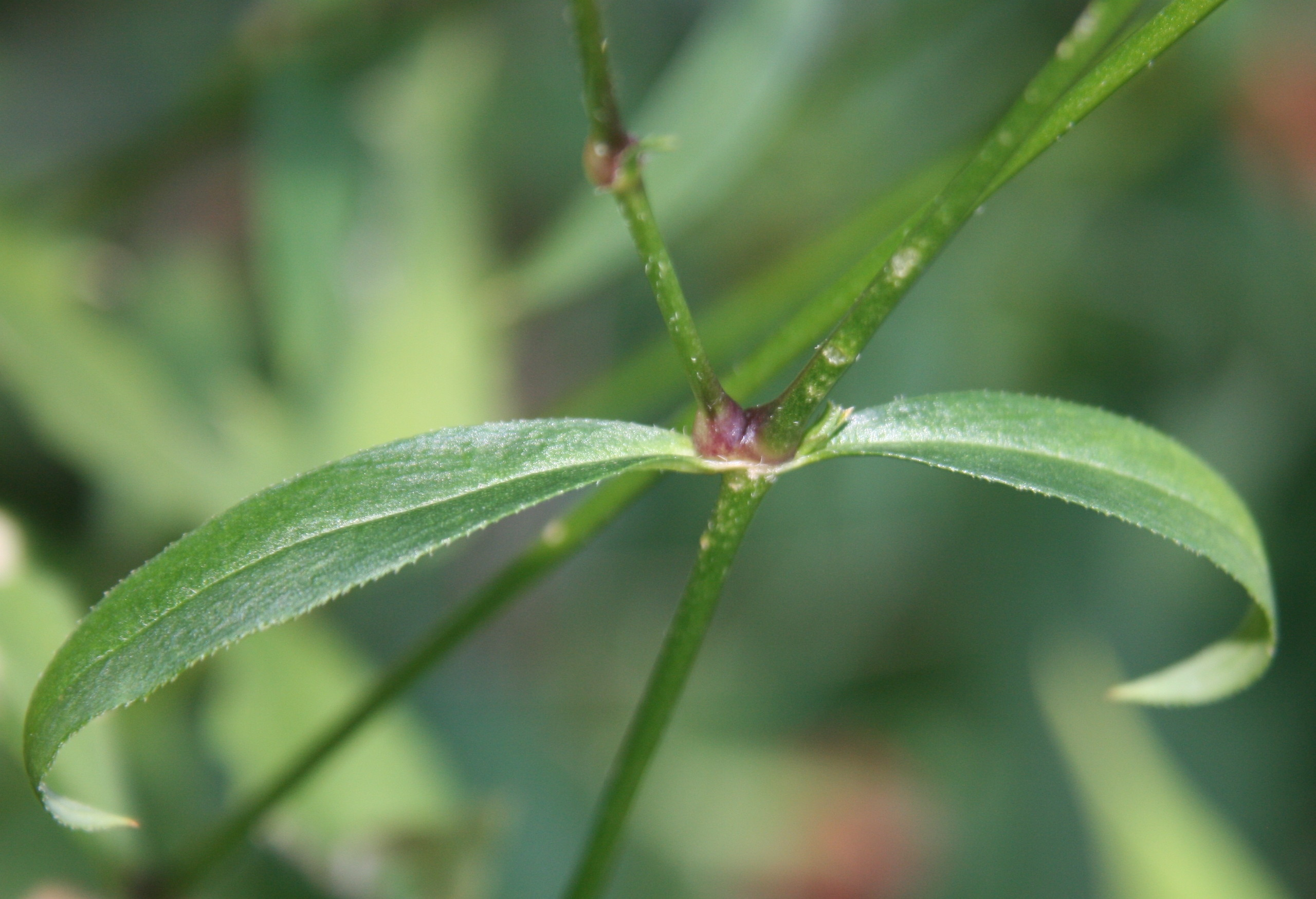 Lychnis miqueliana plant stem and leaf in Mount Odugongen